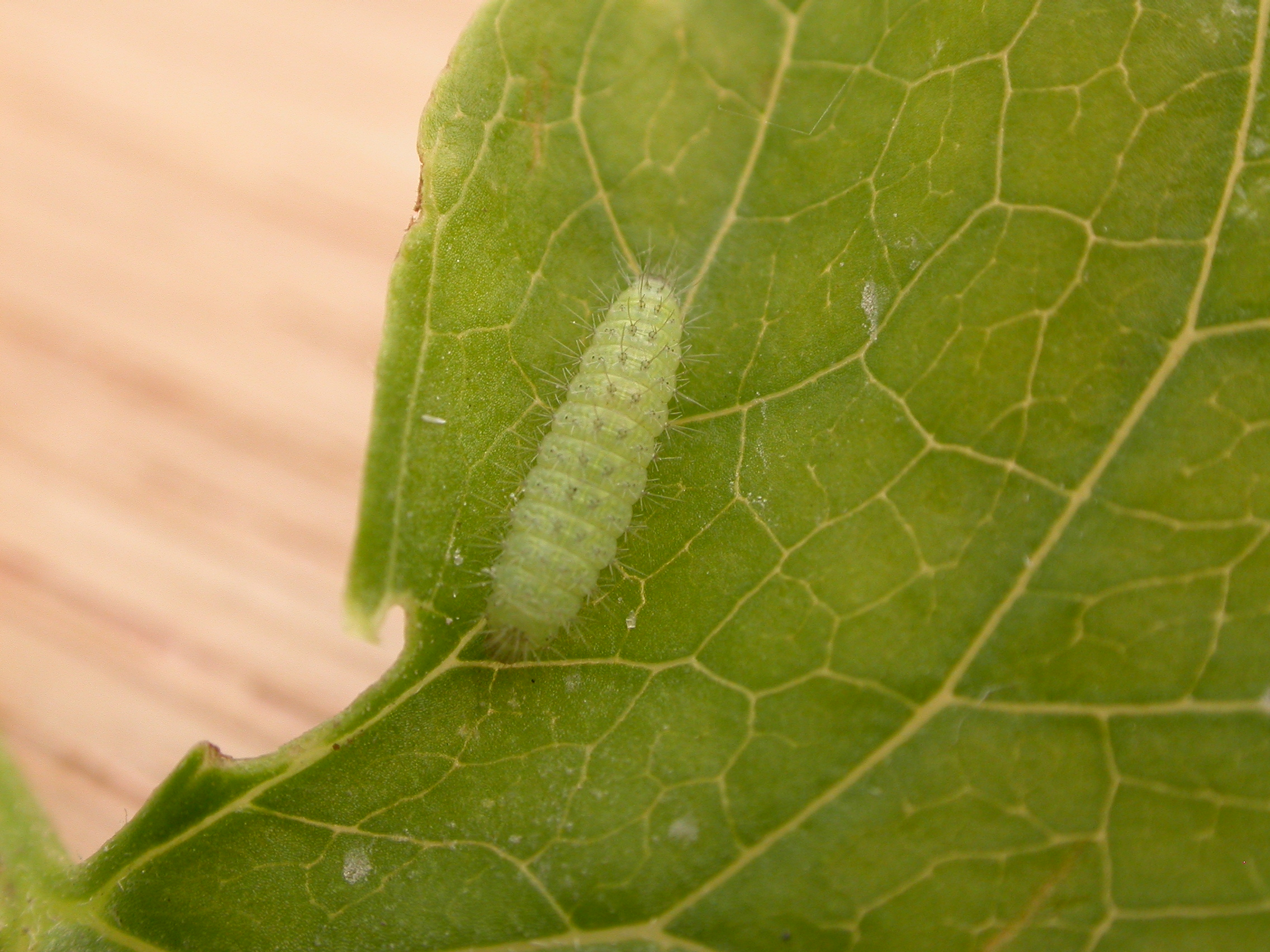 Emmelina monodactyla (Linnaeus, 1758), larva on Calystegia sepium (L.) R.Br. (Hedge Bindweed), Gentofte Sø, 5 August 2012